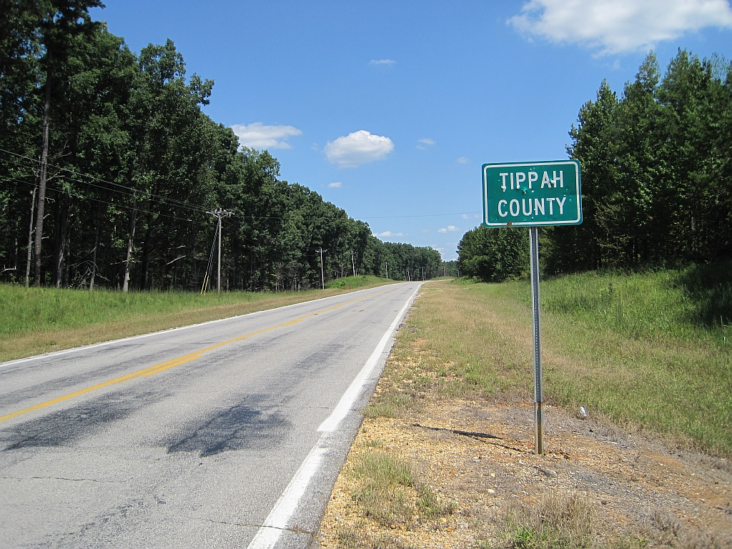 Tippah County, Mississippi sign